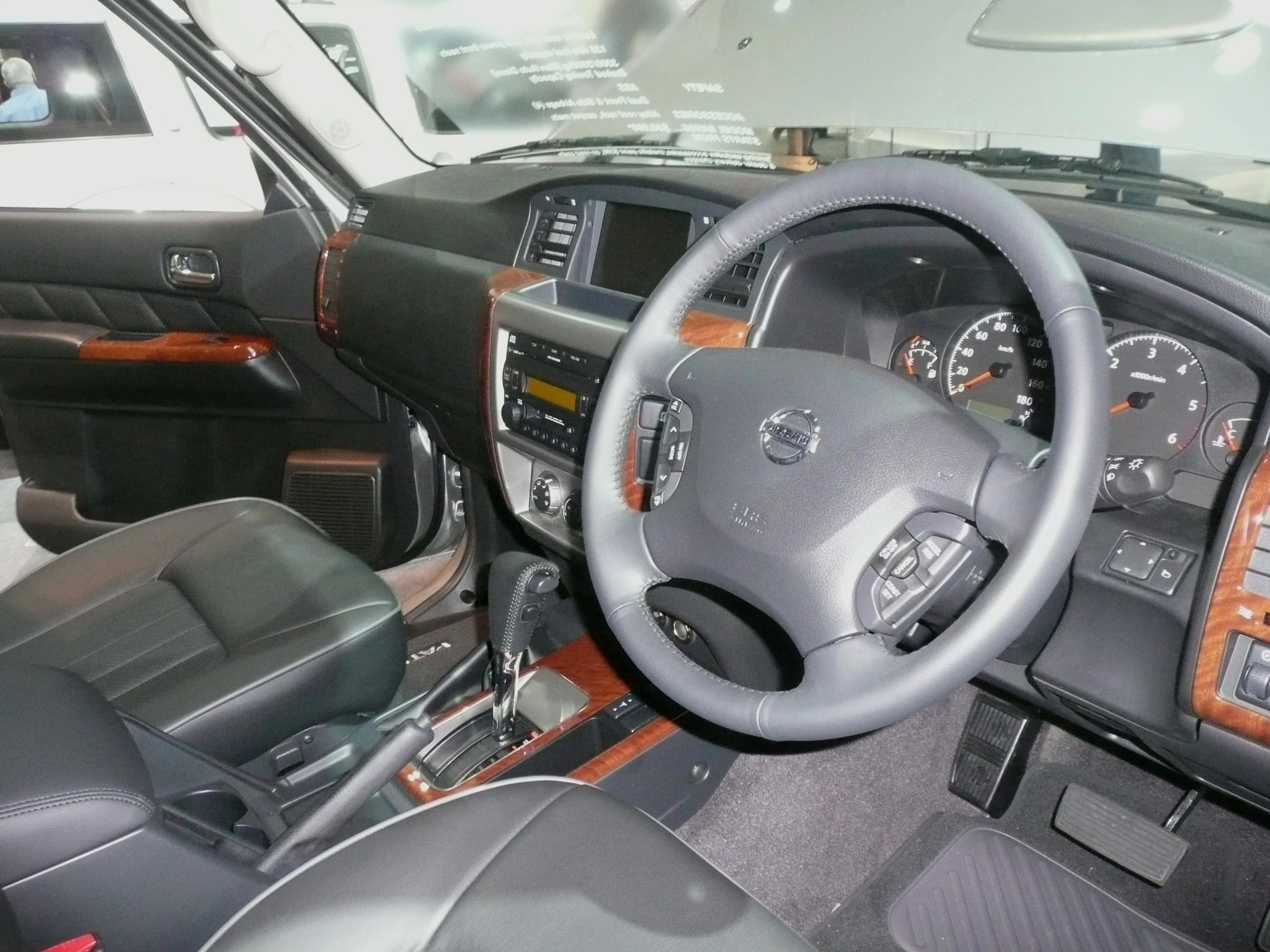 2008 Nissan Patrol (GU 6 MY08) Ti. Photographed at the 2008 Australian International Motor Show, Sydney, New South Wales, Australia.